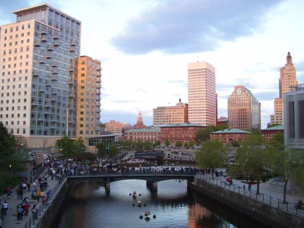 Providence 21st Century